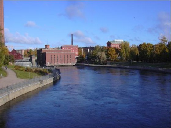 Tammerkoski in Tampere